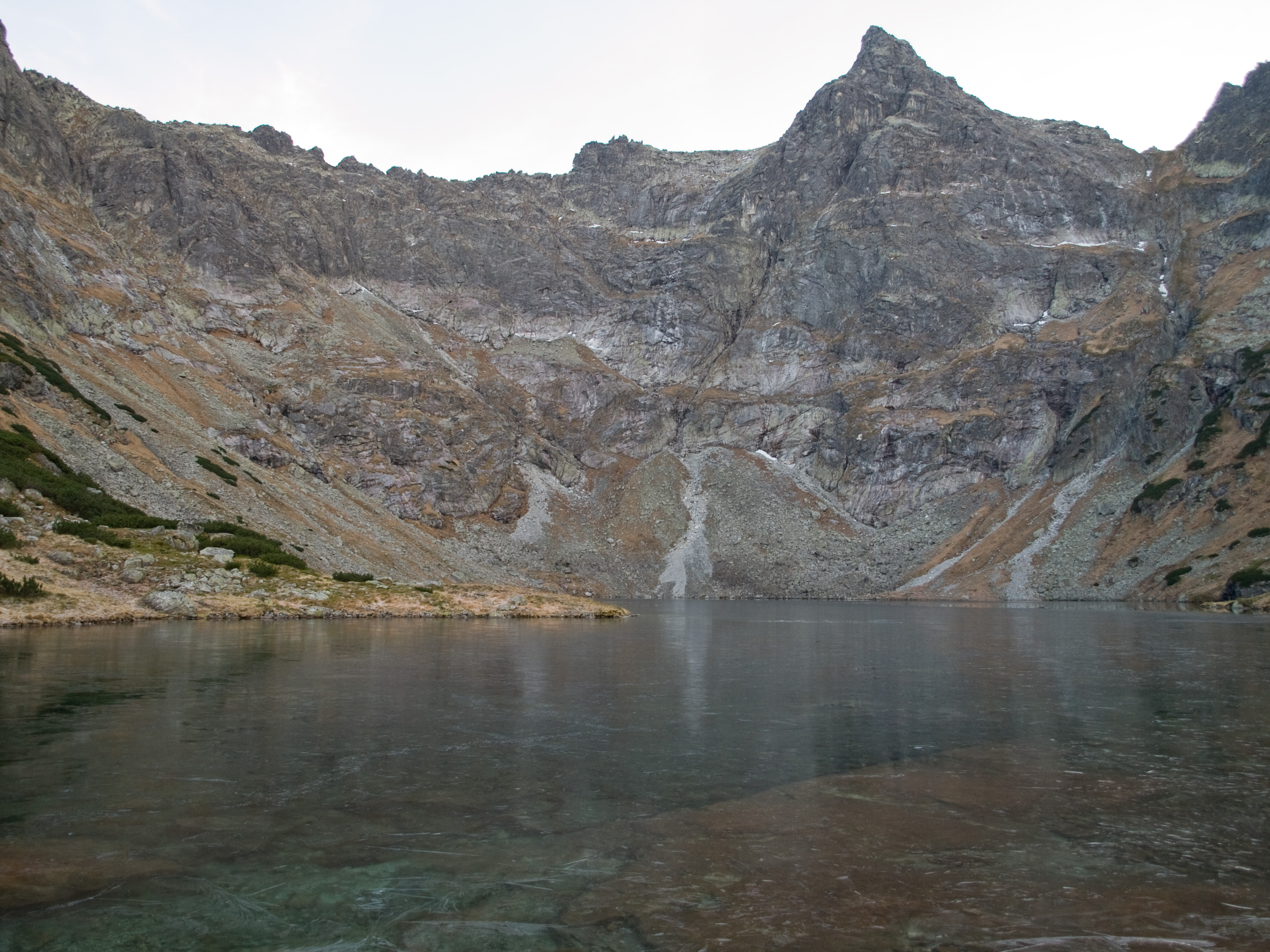 Veľký Žabí štít above Vyšné Bielovodské Žabie pleso